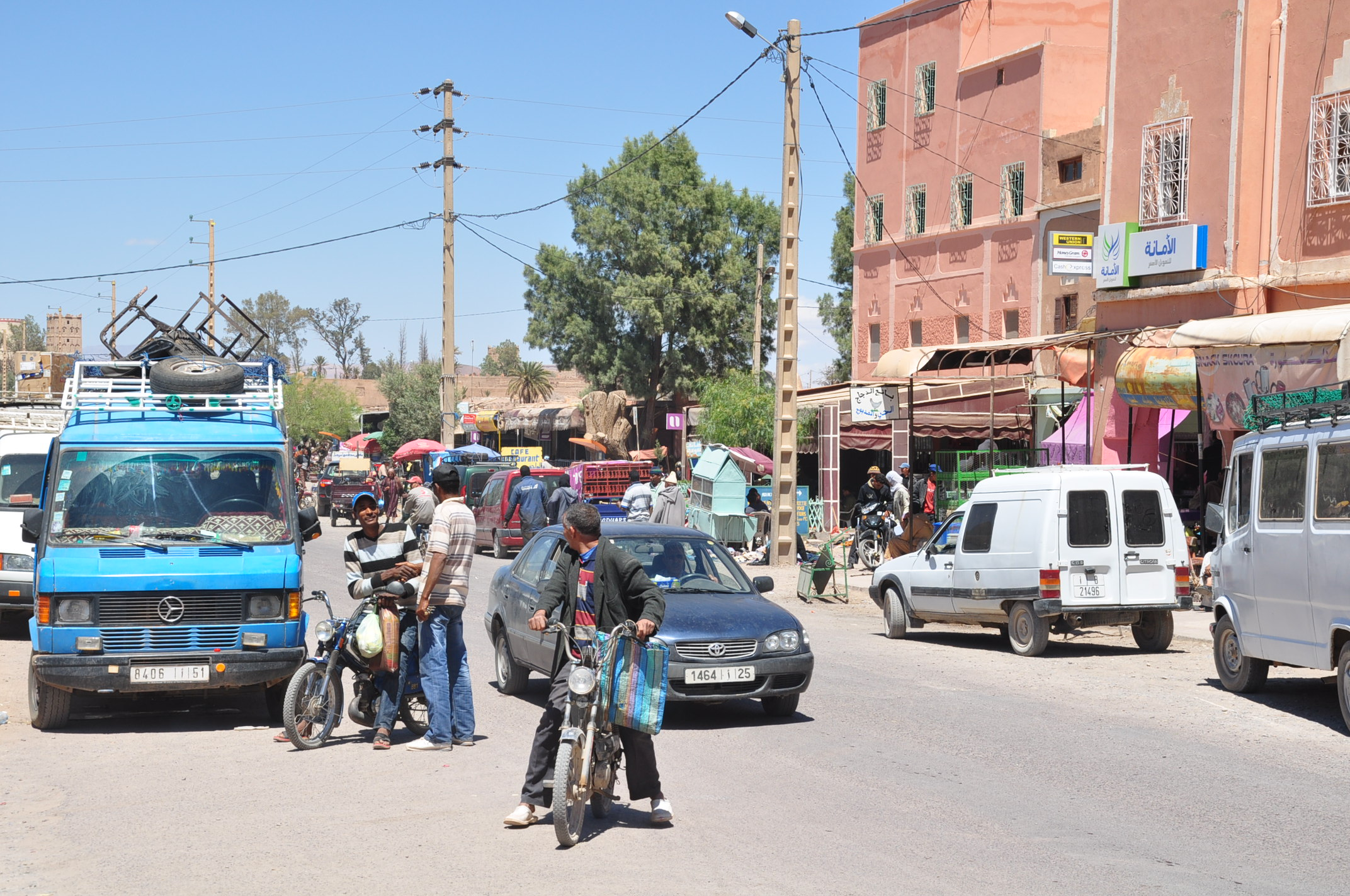 Skoura, main street (Morocco, Souss-Massa-Draa region, Ouarzazate Province).